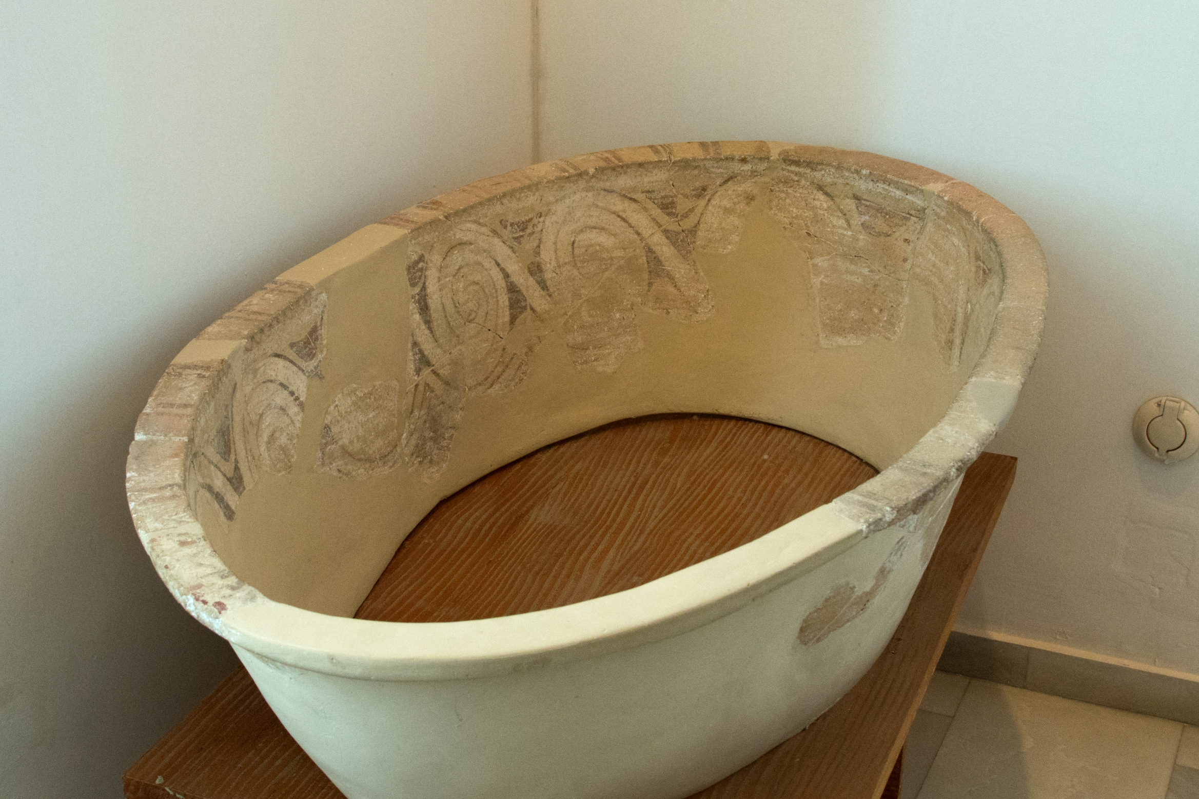 Bath-tub (asaminthos) from Phylakopi. Late Cycladic I period, Phylakopi III. Archaeological Museum of Milos, Cat. no. B 885.